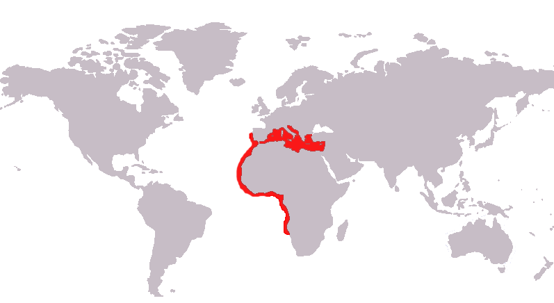 Distribution map of Anthias anthias.